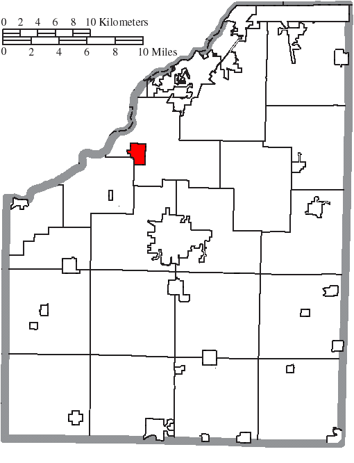 Map of the municipal and township boundaries of Wood County, Ohio, United States, as of the 2000 census, with the location of the village of Haskins highlighted. Township borders are shown only in unincorporated areas in order to differentiate incorporated and unincorporated areas more clearly.